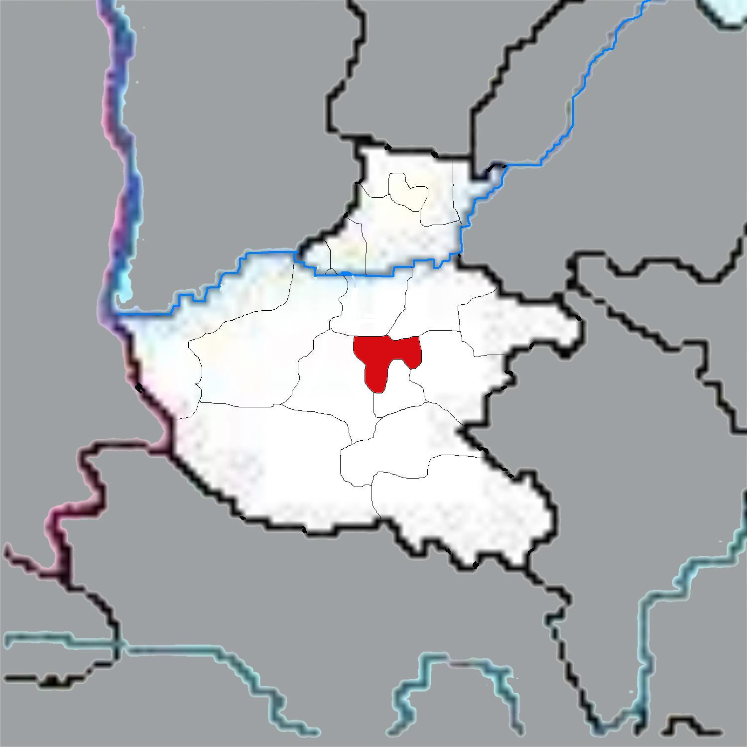 Maps of Henan Province of China